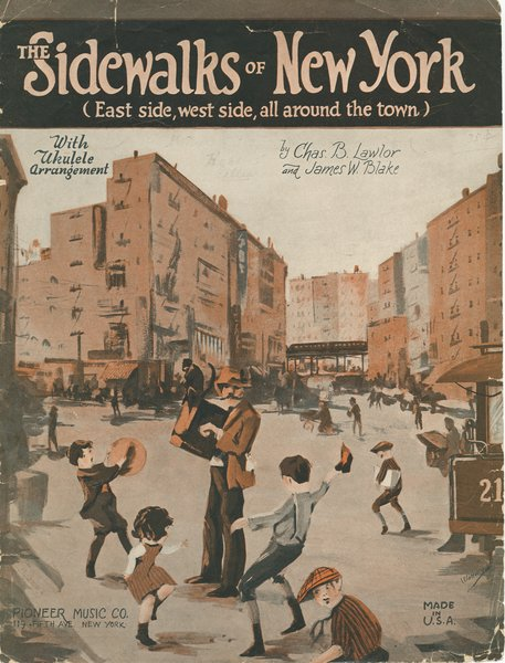 Cover from sheet music of "The Sidewalks of New York", by Charles B. Lawlor and James W. Blake. New York: Richmond-Robbins, Inc., 1914